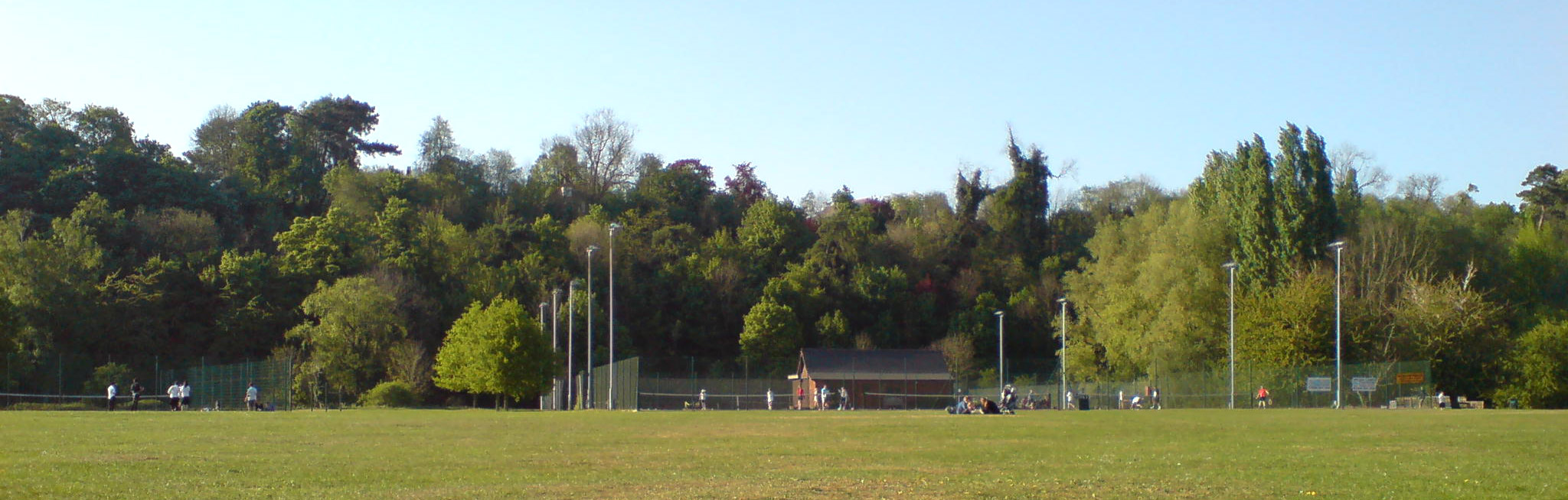 Hartham LTA Club, Author: Jamsta